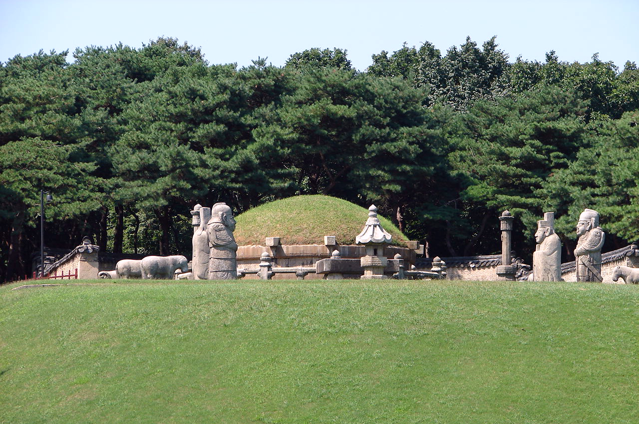 Seonjeongneung and Jeongneung is the burial grounds of two Joseon Dynasty kings and one Joseon queen. Jeongneung - Burial ground of King Jungjong, the 11th king of Joseon, second son of King Seongjong and first son of Queen Jeonghyeon.